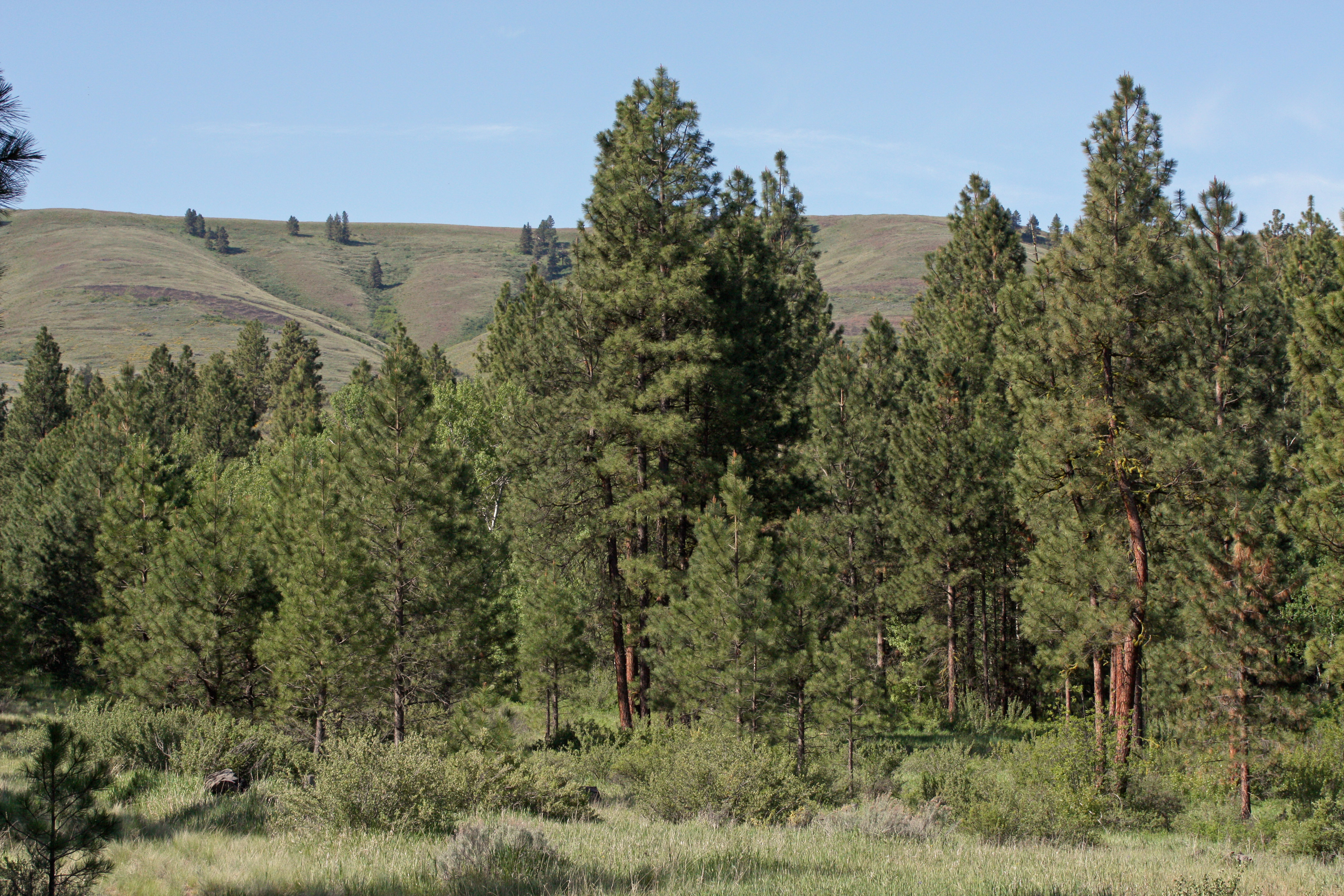 Ponderosa Pine, Western Yellow Pine, Blackjack or Bull Pine